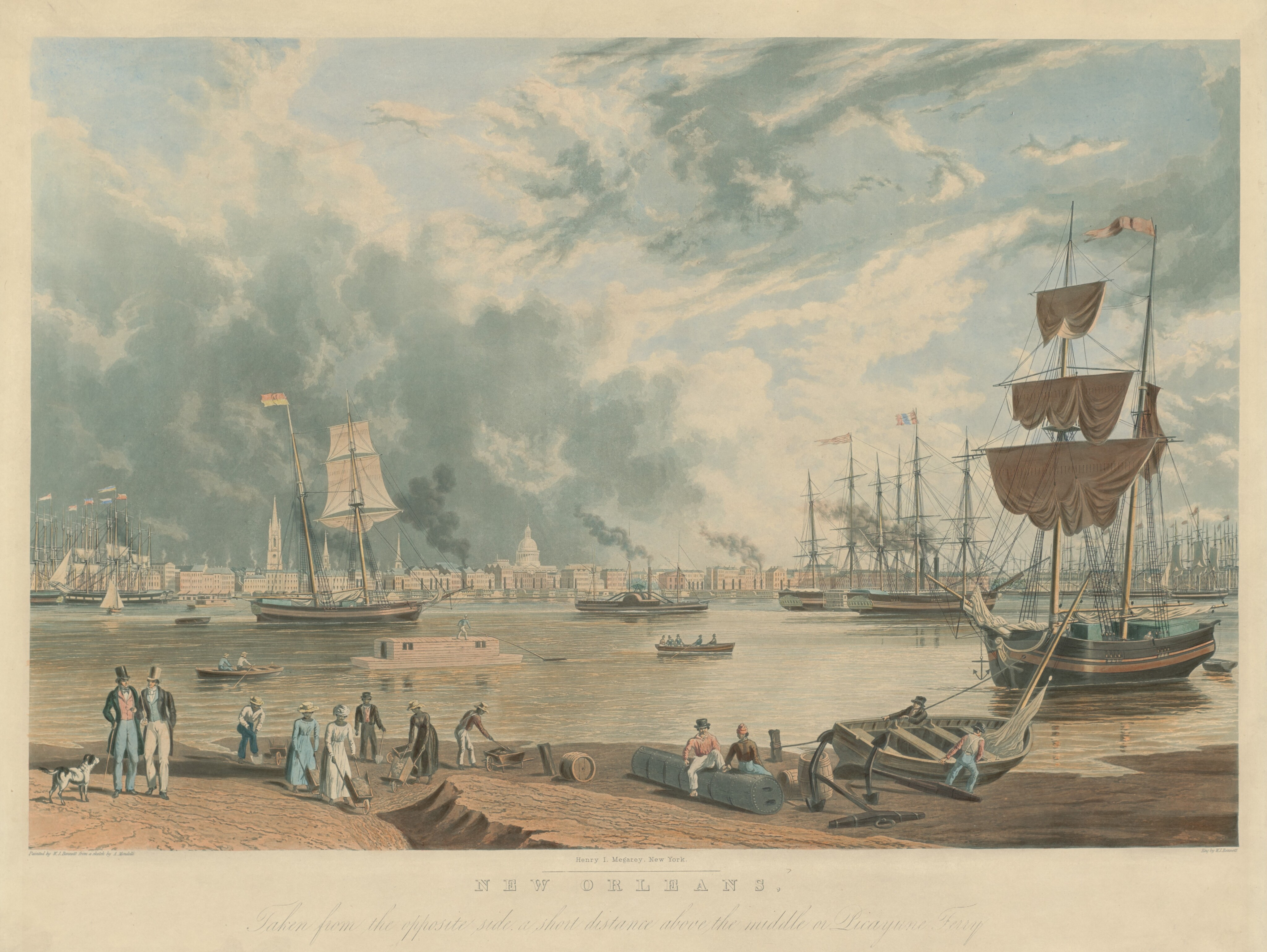 New Orleans, 1841 color engraving. "New Orleans. - Taken from the Opposite Side a Short Distance above the Middle or Picayune Ferry." View looking from Algiers (probably about where Mardi Gras World is now) looking across the Mississippi River. On river are a variety of sailing ships, steam ships, row-boats, and a flatboat. Across the river is the skyline of the "American Quarter" of New Orleans, with the dome of the first St. Charles Hotel prominent just left of center. The French Quarter to the right is mostly obscured by ships, but the towers of St. Louis Cathedral can be recognized behind ships' rigging near the right edge. In the foreground along the river batture are seen, left to right: two men in top-hats and prosperous outfits of the time with a dog; a small group of African Americans (likely slaves), both men and women, working taking soil from the river edge and putting it in wheel-barrows (presumably building up the high-water levee a short distance inland); two white men in working garb seated on a log with barrels; two large metal anchors; and two men moving a small sailboat which is tied to a post on the bature (presumably either about to put it back in the water or almost finished dragging it on land).